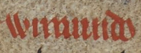 An excerpt from folio 122v of British Library Cotton MS Vespasian B VI (Historia rerum Anglicarum). The excerpt refers to Wimund, Bishop of the Isles.